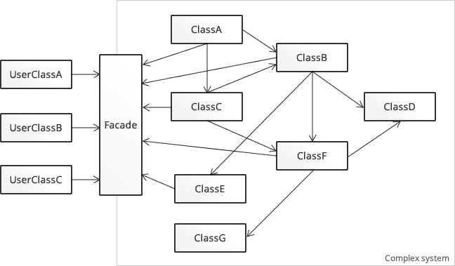 Simple diagram of a complex system with usage of Facade.